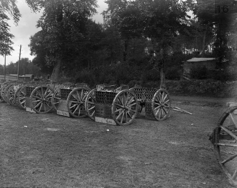 The Battle of the Somme, July - November 1916 Battle of Albert. French 75mm gun limbers at an ammunition dump between Hedauville and Bouzincourt, 1st July 1916.